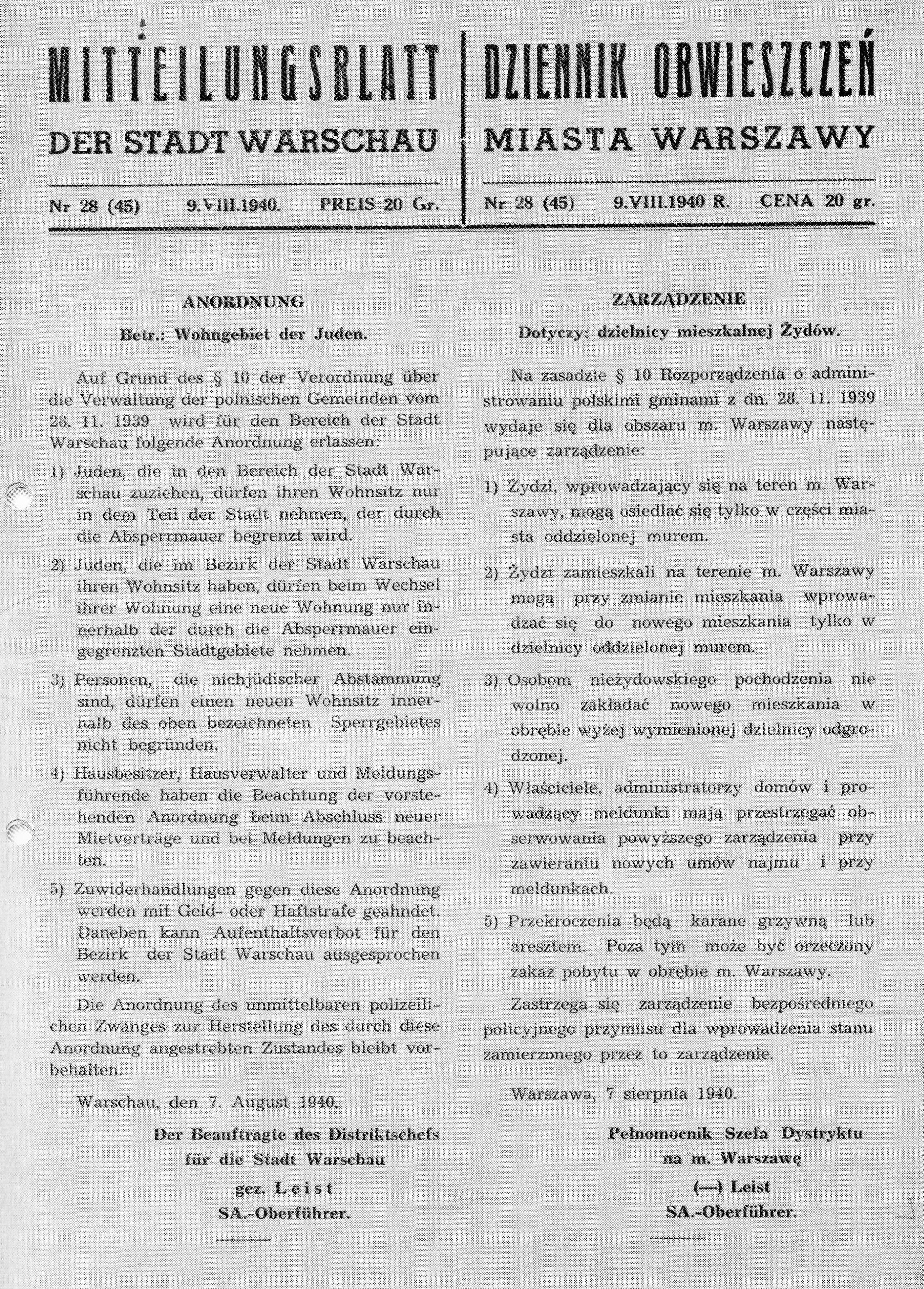 Journal of Decrees of the City of Warsaw with a regulation signed by Ludwig Leist regarding the Jewish housing district